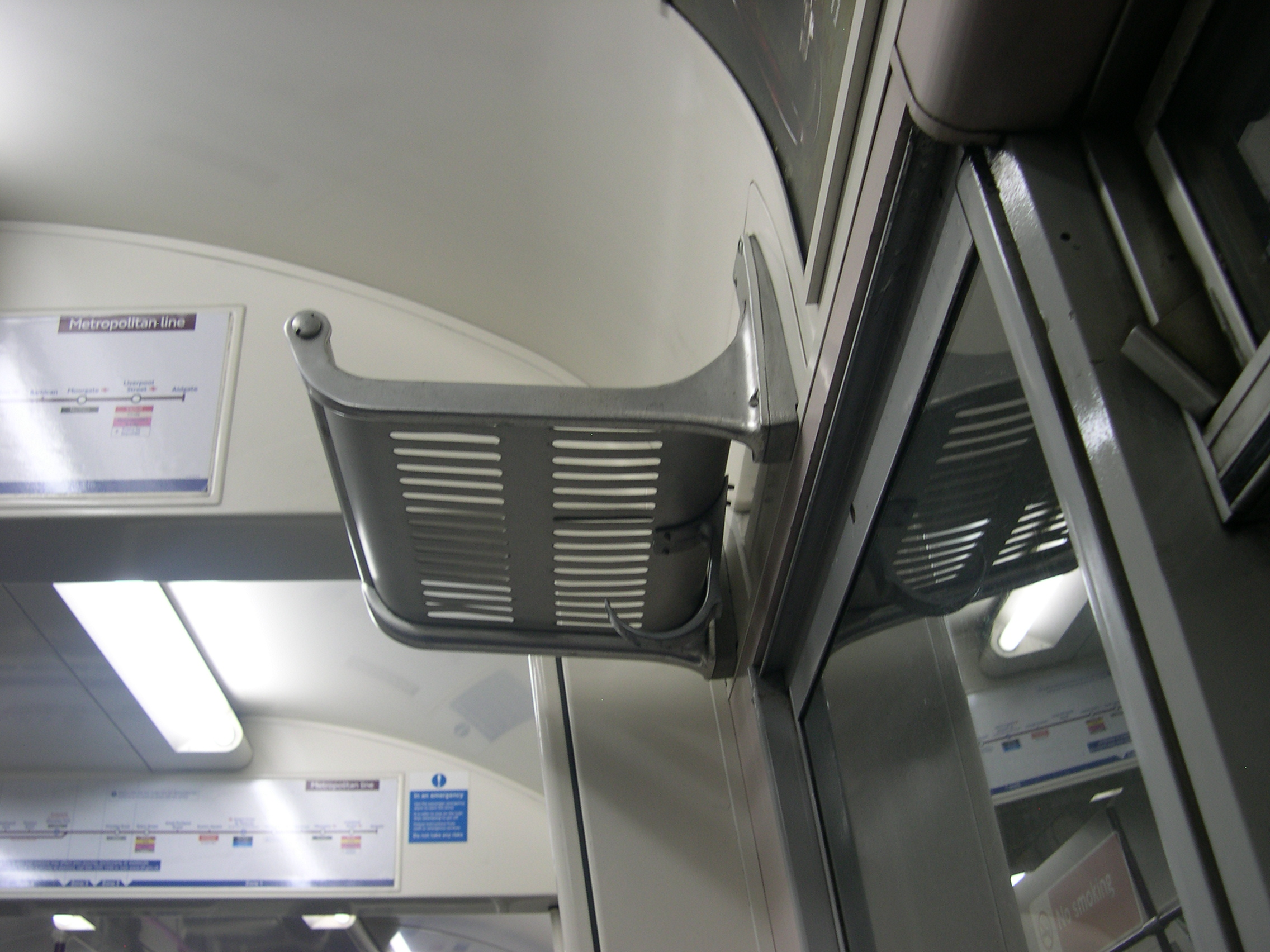 A luggate rack and a umbrella hook on a London Underground A60 stock